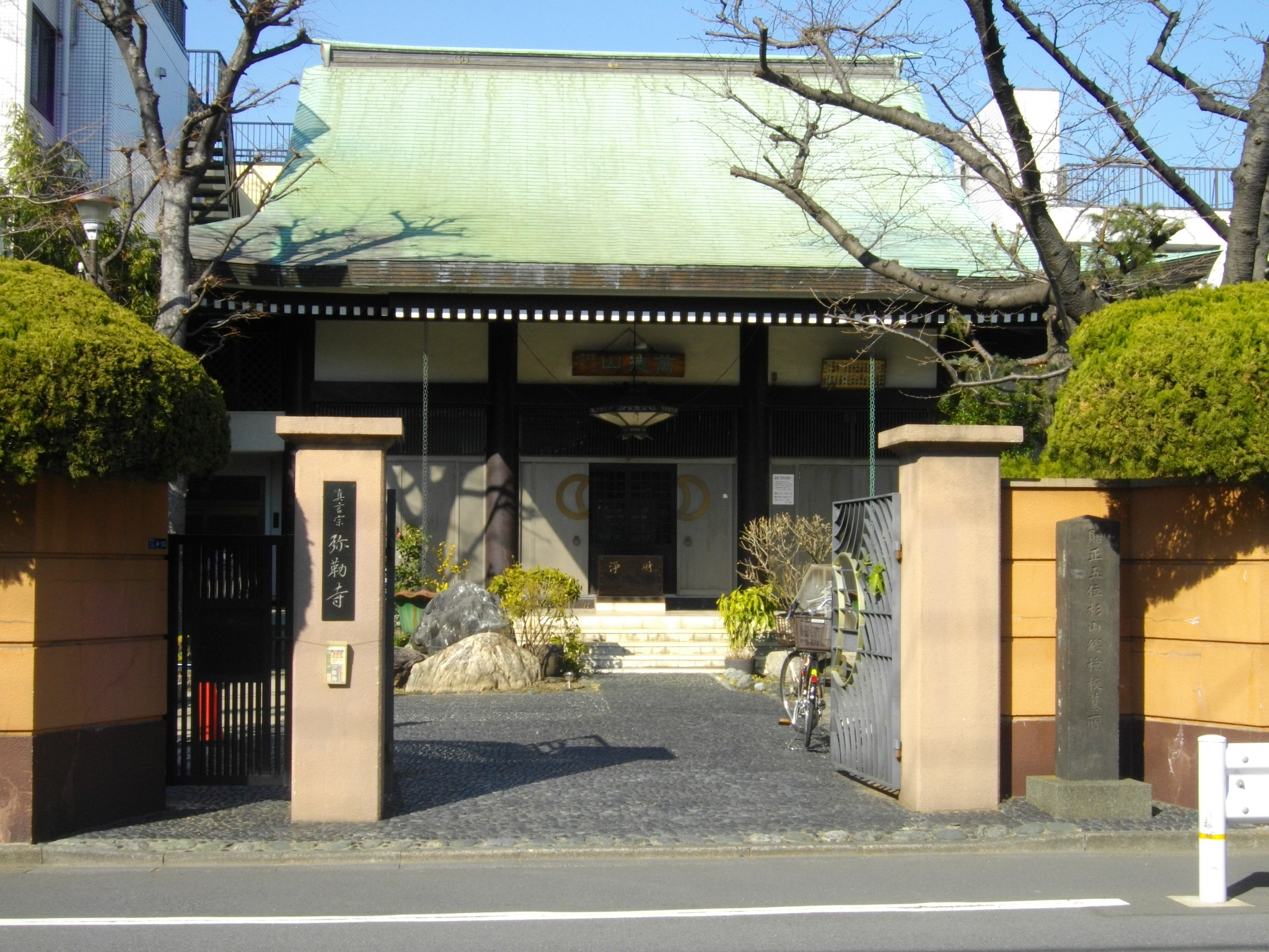 Miroku-ji (Sumida)